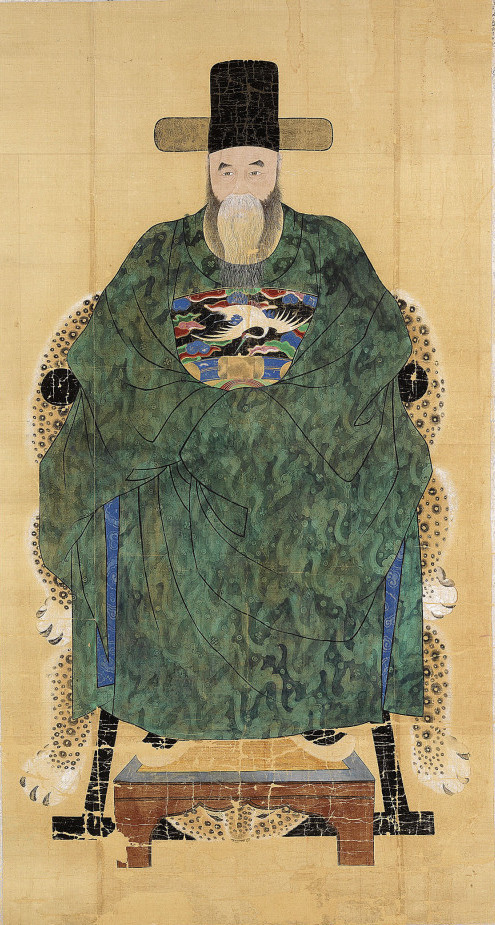 박세채 영정 Park_Se-che Korean Scholar